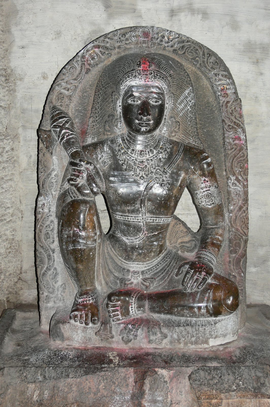 Chandeswara